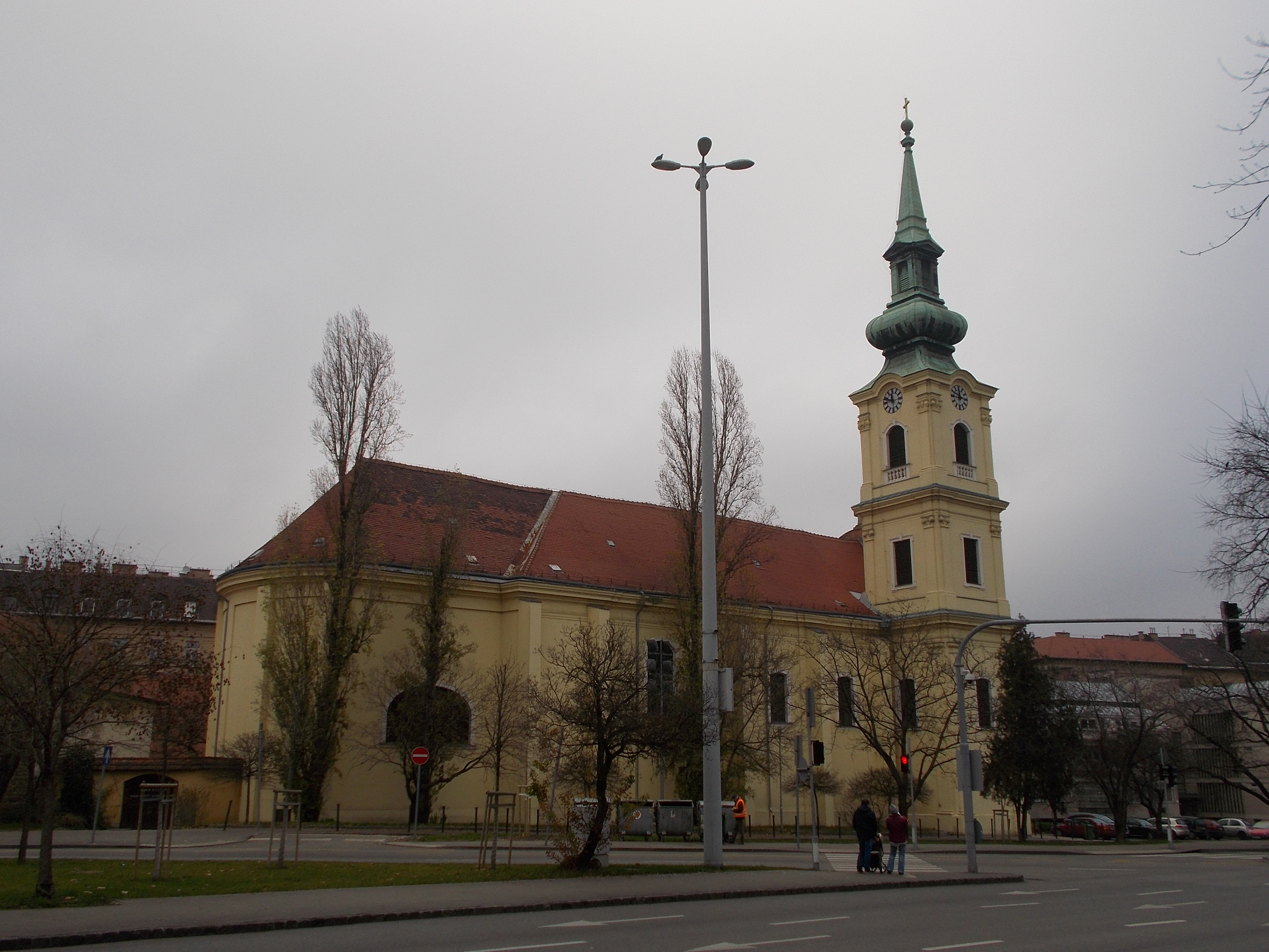 Saint Catherine Church in Tabán, Budapest District I. A Baroque Eclectic church built in 1728 by Keresztély Obergruber. - Attila Street, Budapest